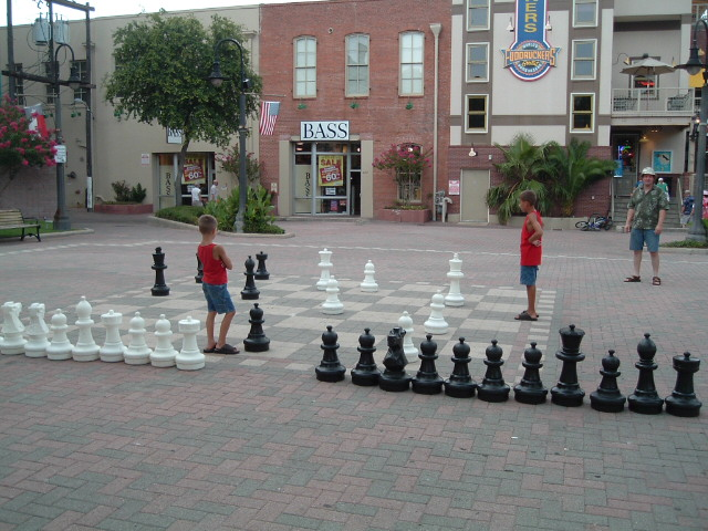 Giant chessboard in Saengerfest Park on The Strand in Galveston, Texas; taken by this user.